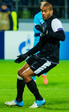 Oguchi Onyewu